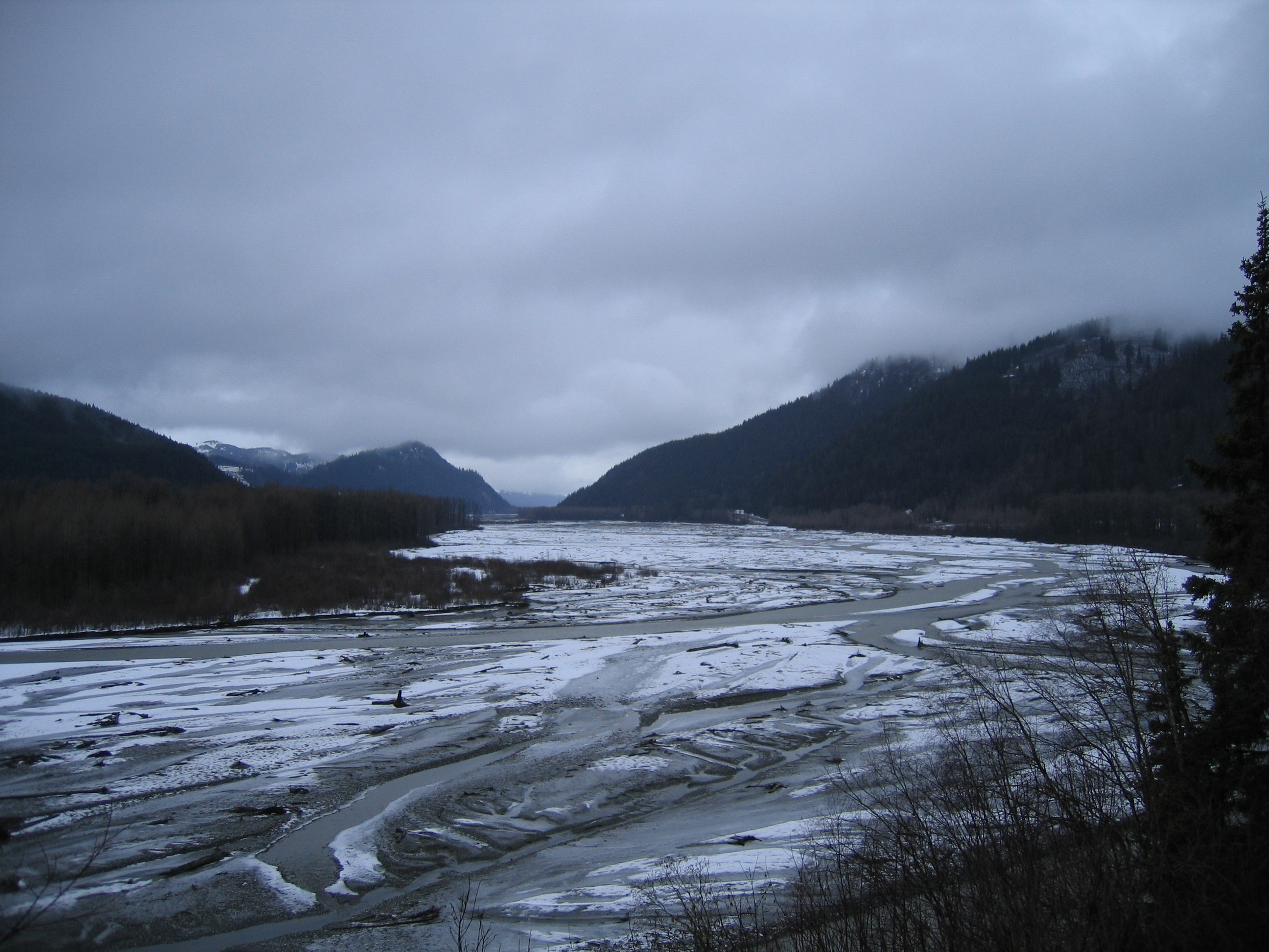 Photo by Micah Bochart